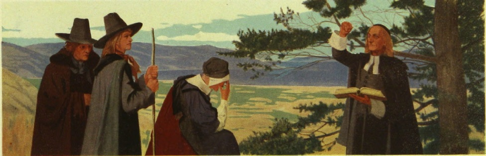 "The Puritans", the second of thirteen murals by Francis Davis Millet, painted in 1909. The series of murals is in the rotunda of the Cleveland Trust Company Building in Cleveland, Ohio, United States.